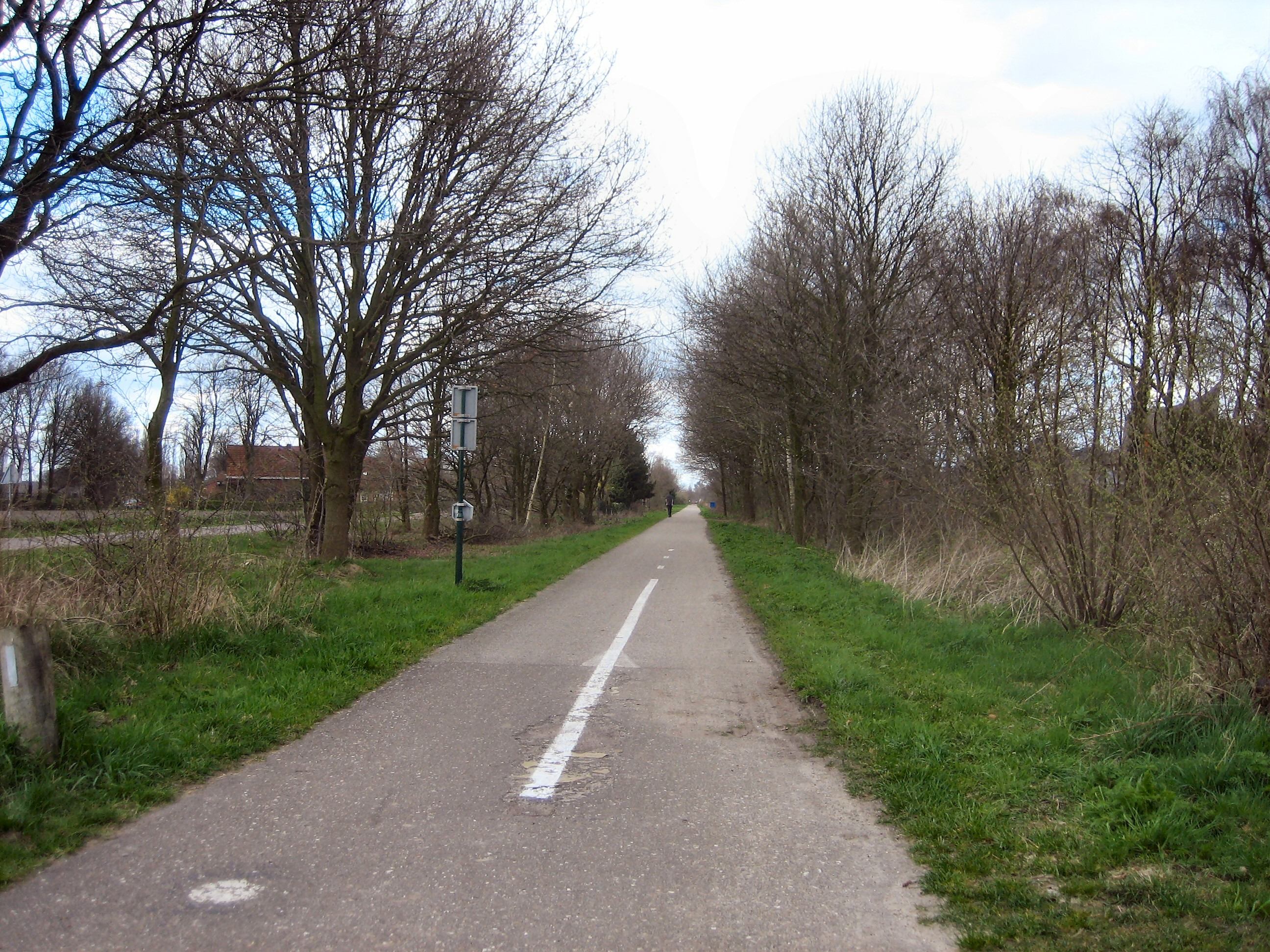 Bels lijntje Bicycle track South of Baarle Nassau Picture taken by Hullie April 2006